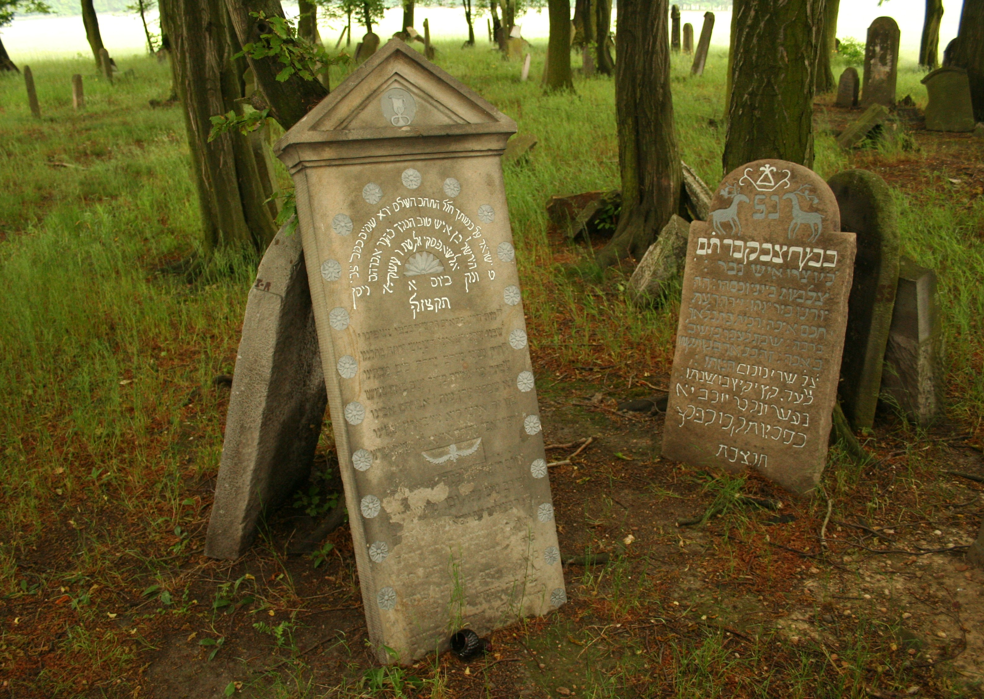 Jewish cemetery in Cieszowa, gravestone. The left one belongs to Hirshel son of Avraham Olshavski. He passed away on April the 16th 1837.